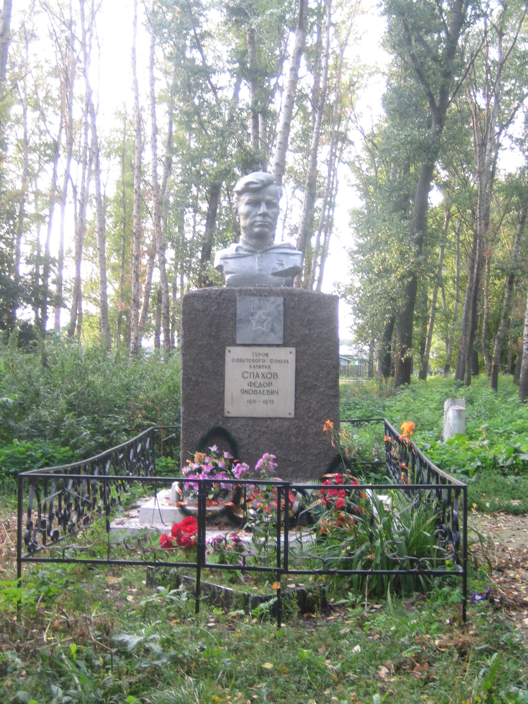 Pamiatnik Spakhovu